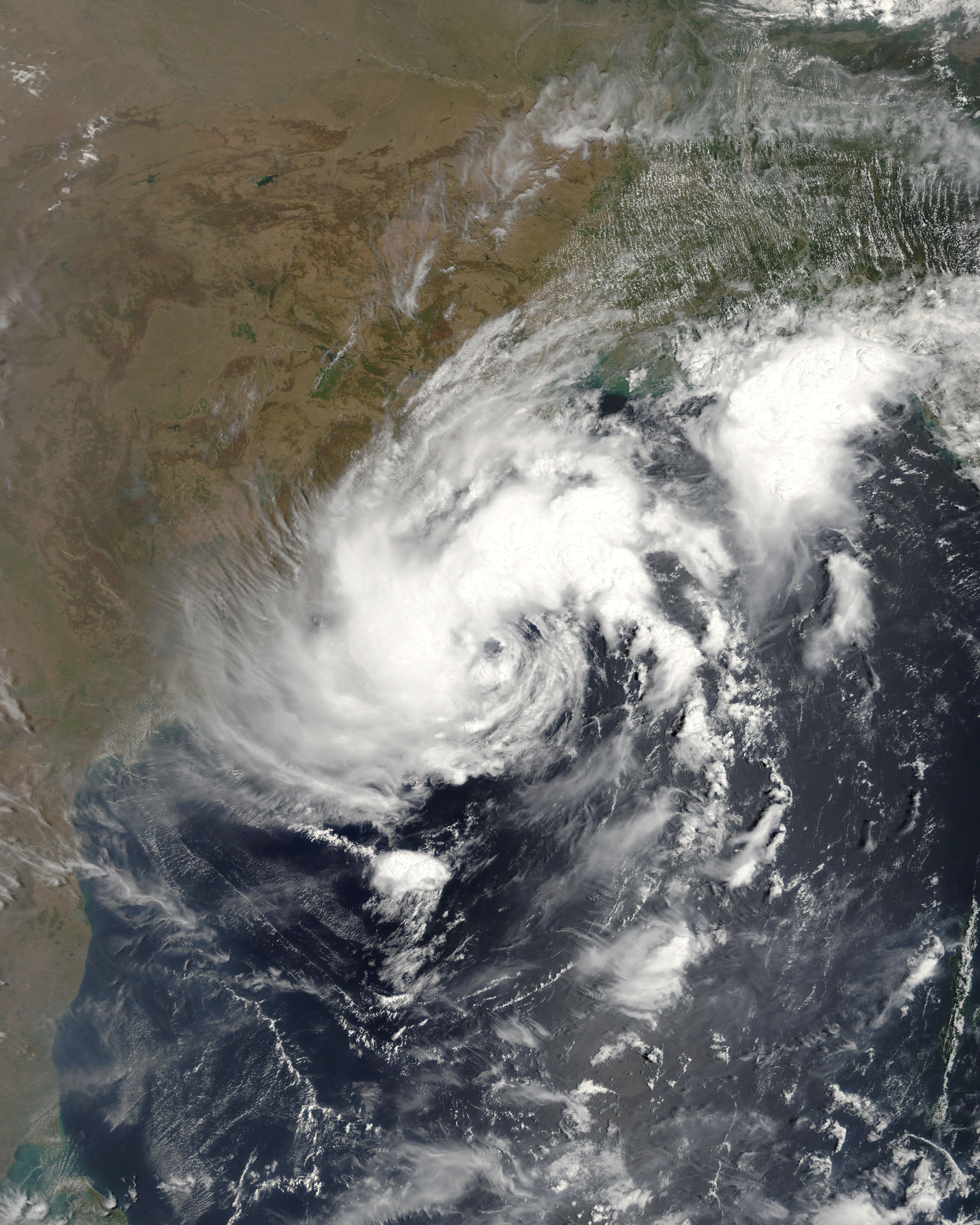 A picture of Cyclonic Storm Bijli showing its eye east of the deep convection. India to the west and Bay of Bengel to the east.